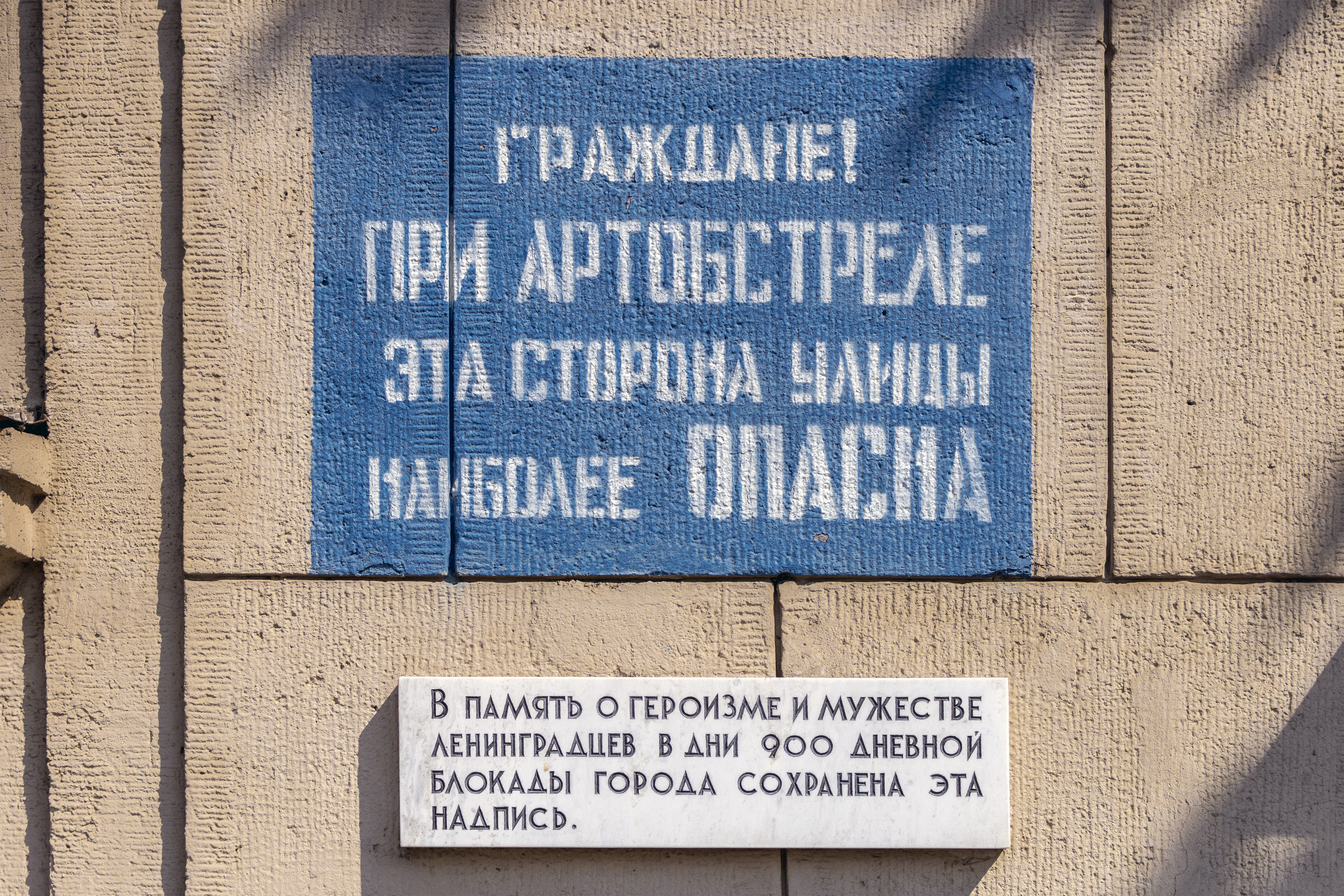 Memorial sign "Citizens! When shelling this side of the street is most dangerous" at Lesnoy Avenue in Saint Petersburg